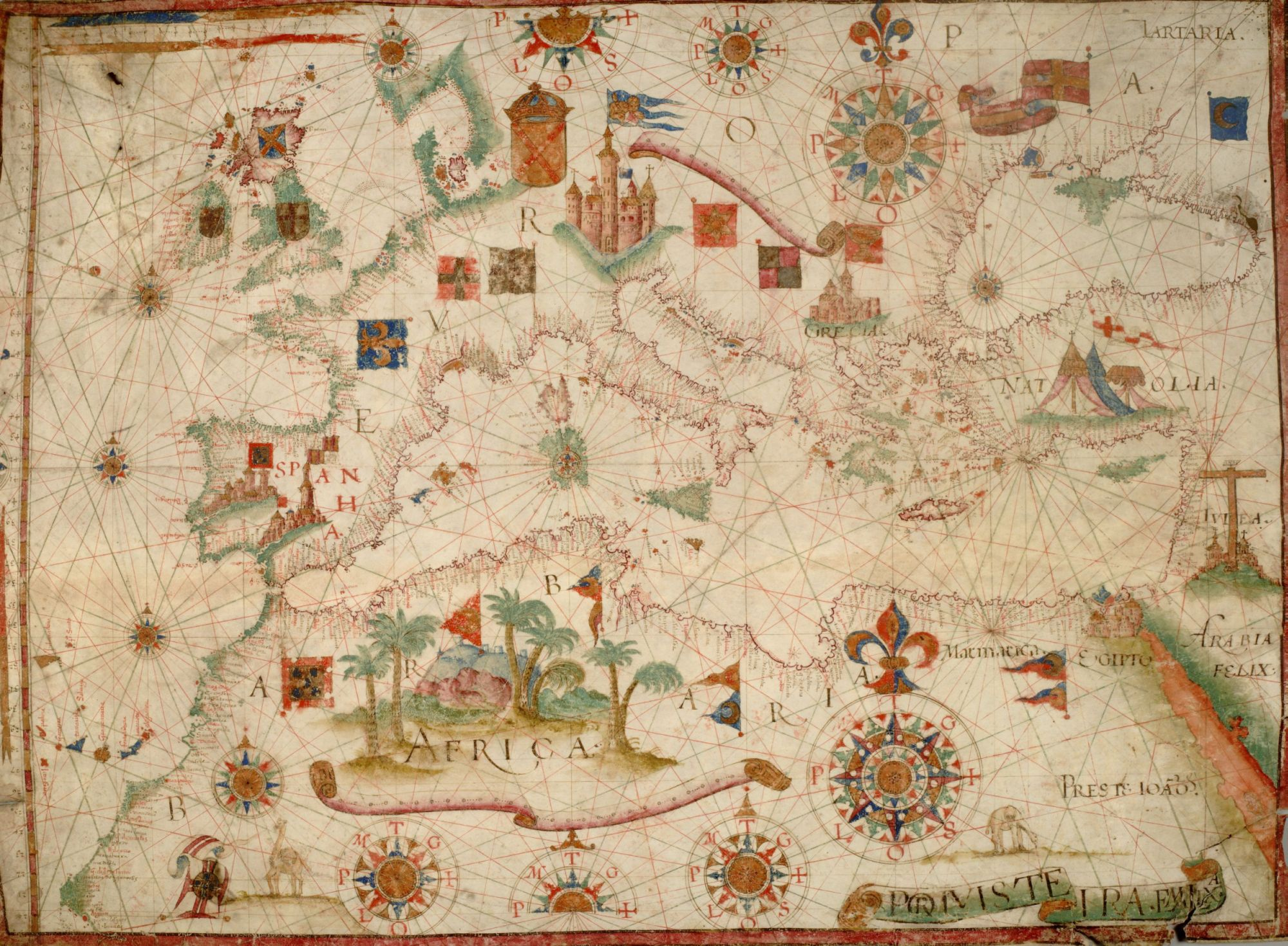 Nautical Chart of Mediterranean Sea, Luís Teixeira, Portugal, 1600 AD